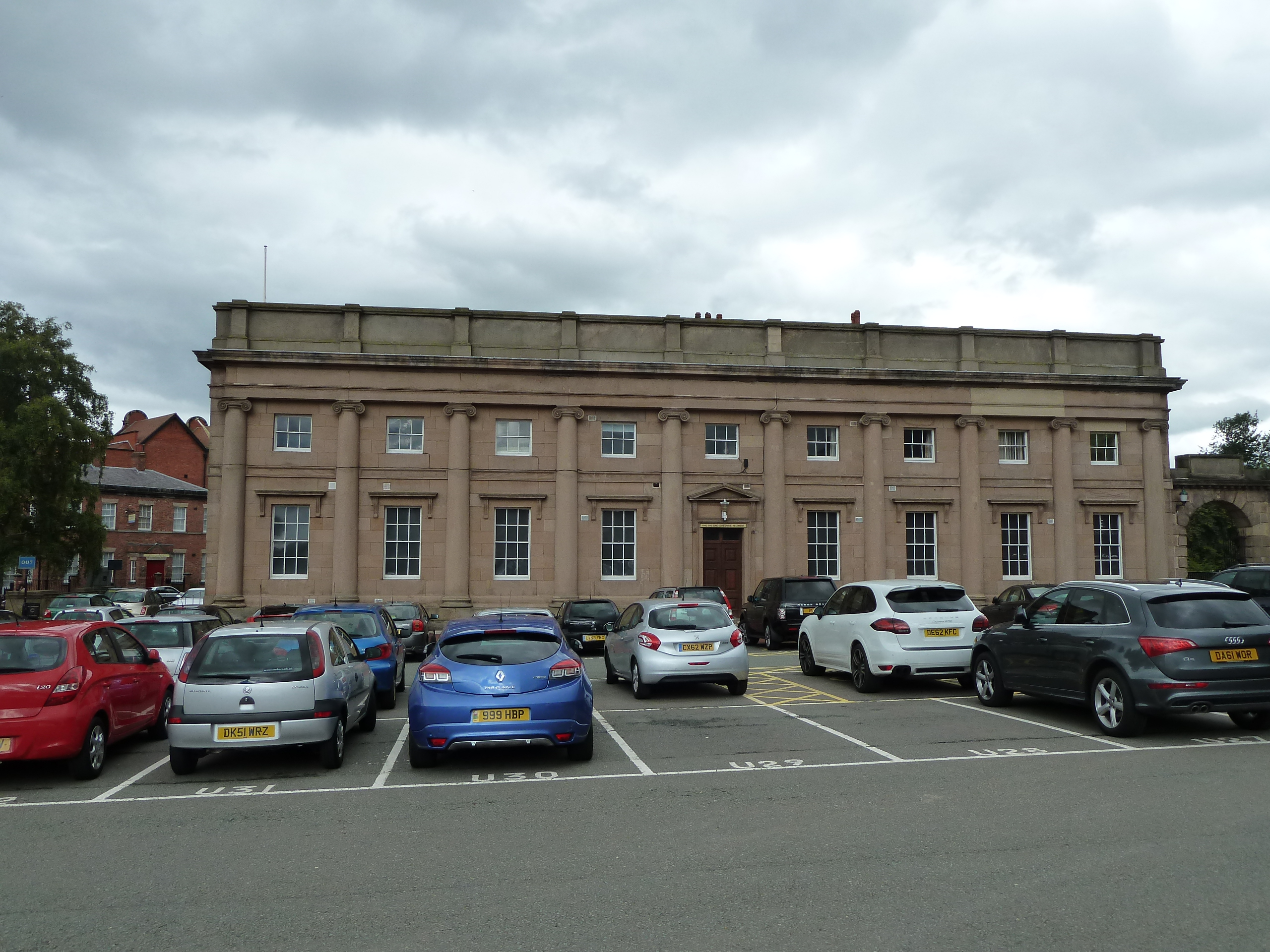 A Block